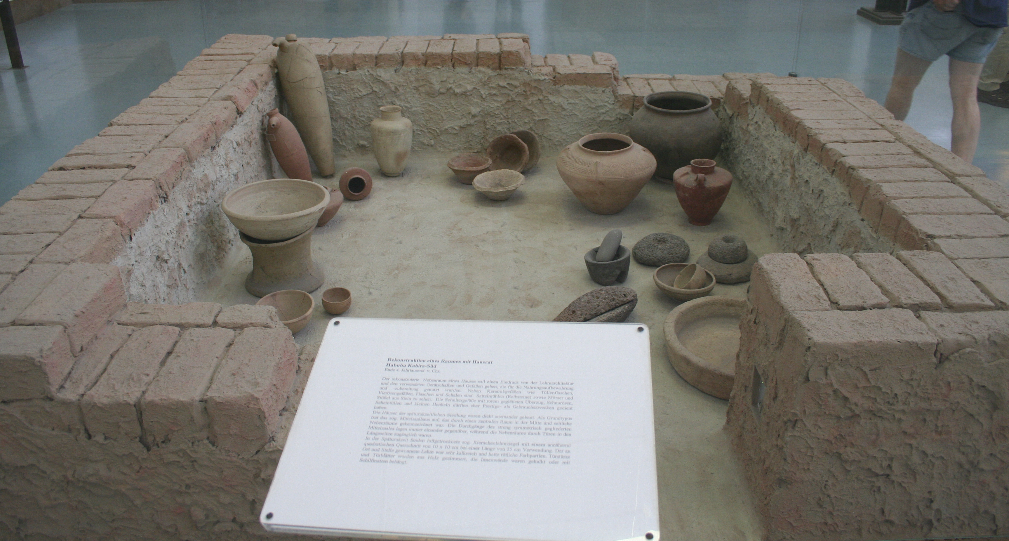 Vorderasiatisches Museum (Near East Museum), Berlin